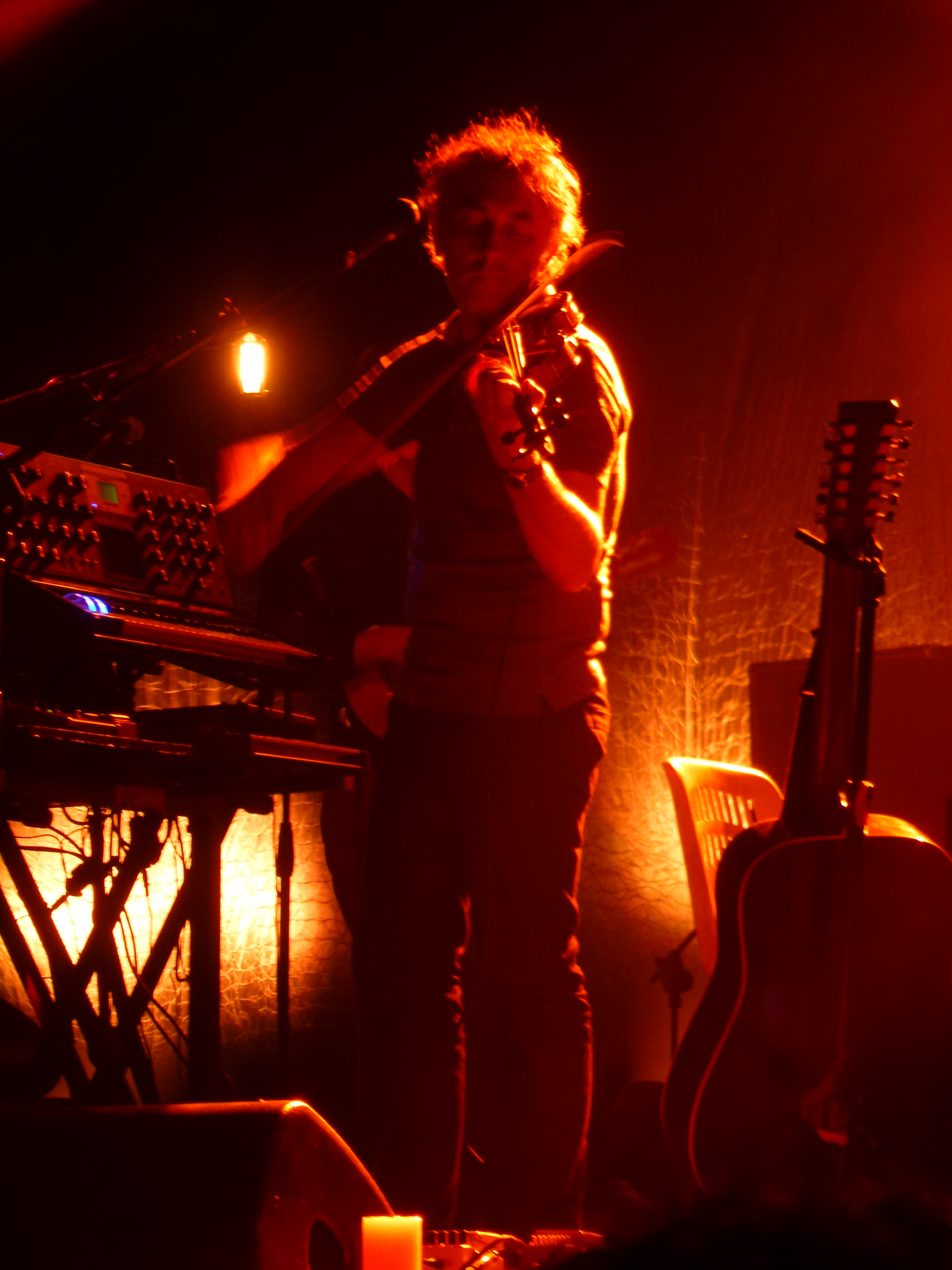 Infinity tour 2014 - Prato (FI)